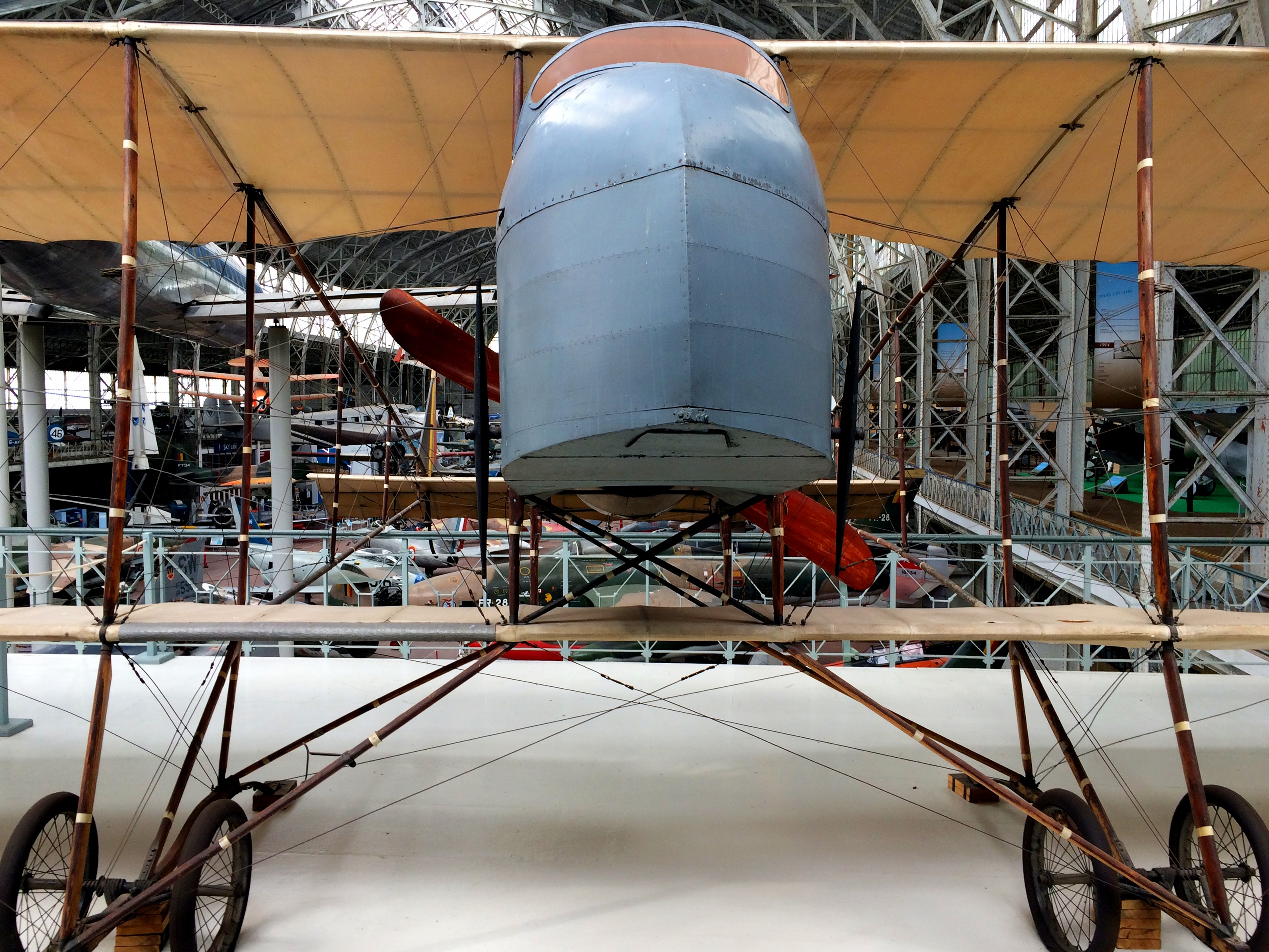 Farman MF XI used by the Belgian armed forces during World War I. Royal Military Museum, Brussels. This is a file created at the museum: Royal Museum of the Armed Forces and of Military History in Brussels